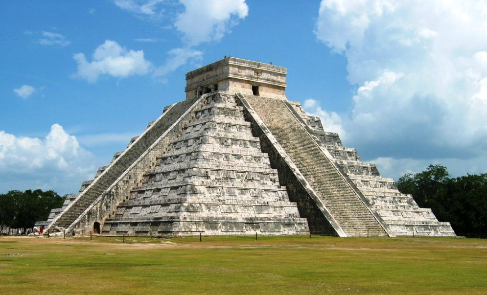 Kukulcan, the main temple at Chichen Itza, .